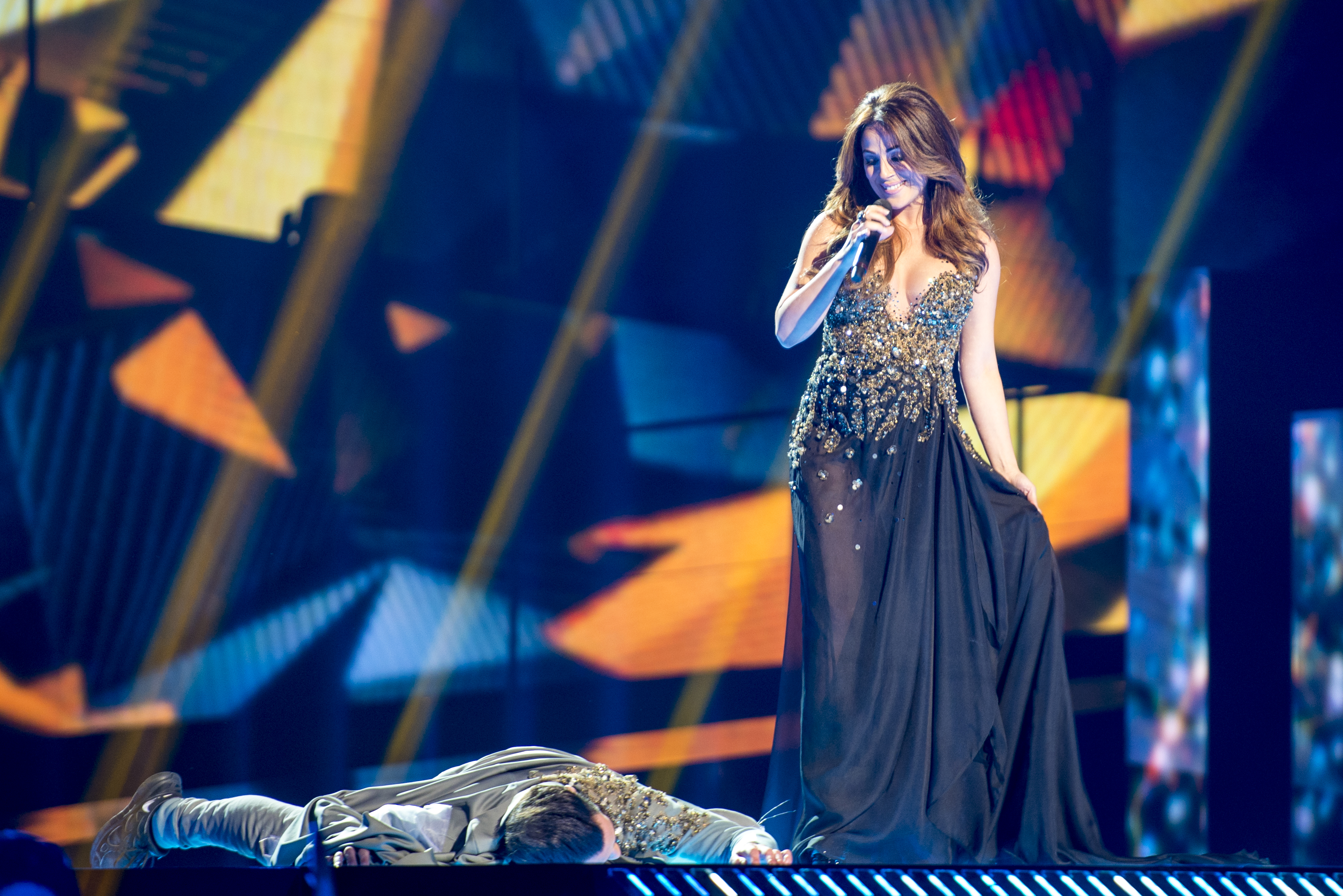 Ira Losco representing Malta with the song "Walk on Water" during a rehearsal before the first semi final of the Eurovision Song Contest 2016 in Stockholm. (Help translate this text)